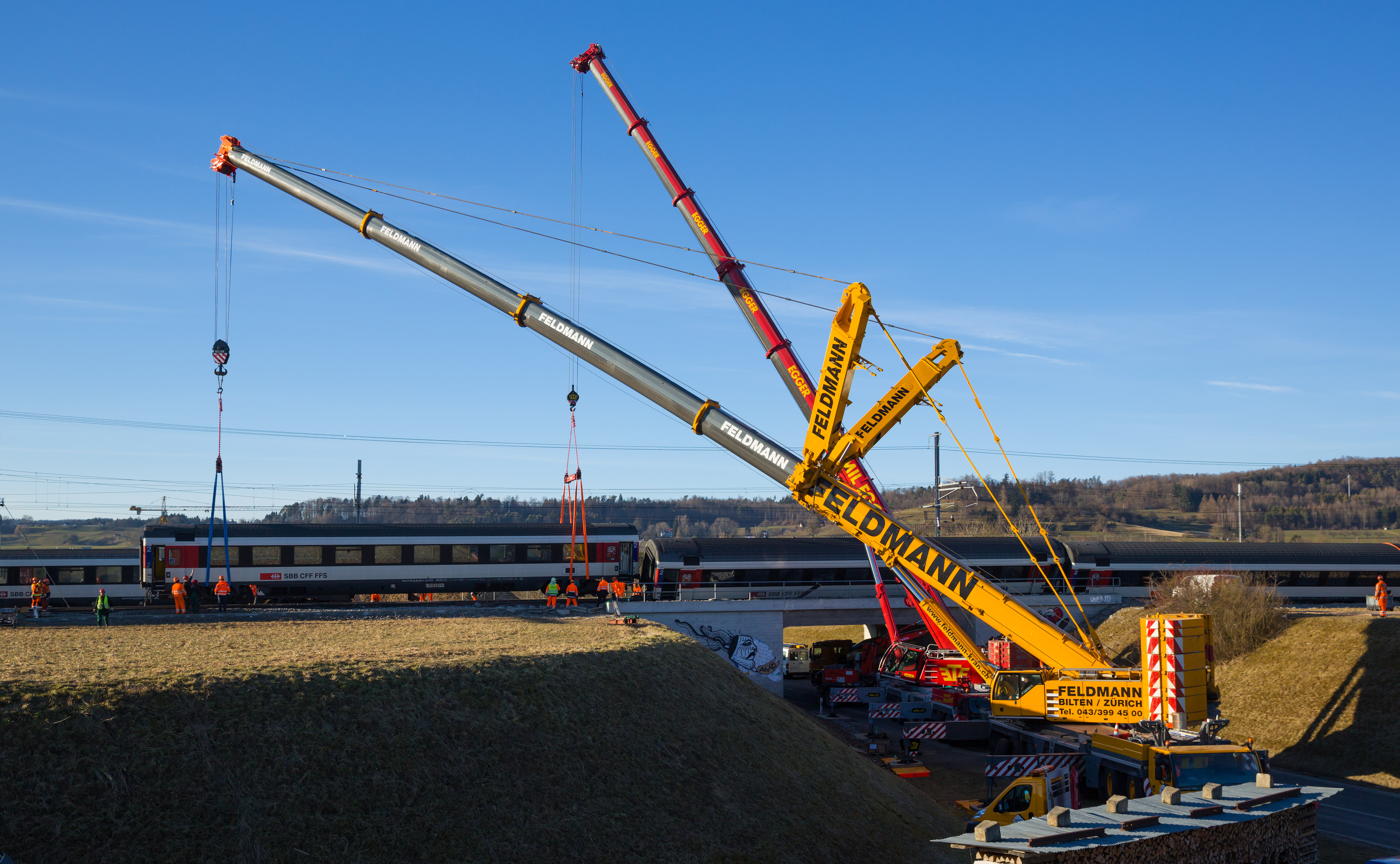 A Bpm 61 is getting re-railed using two cranes.